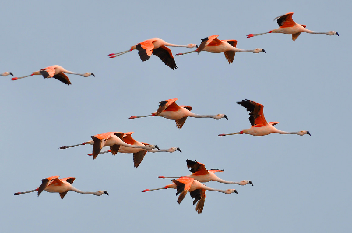 A flock of Chilean Flamingos flying in Tavares, Rio Grande do Sul, Brazil.